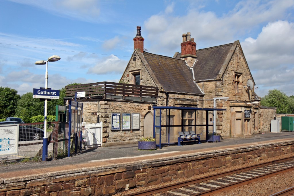 Former station house, Gathurst railway station